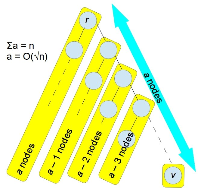 The picture shows the worst case of longest path decomposition which makes the algorithm spend O(√n) to find level ancestor.